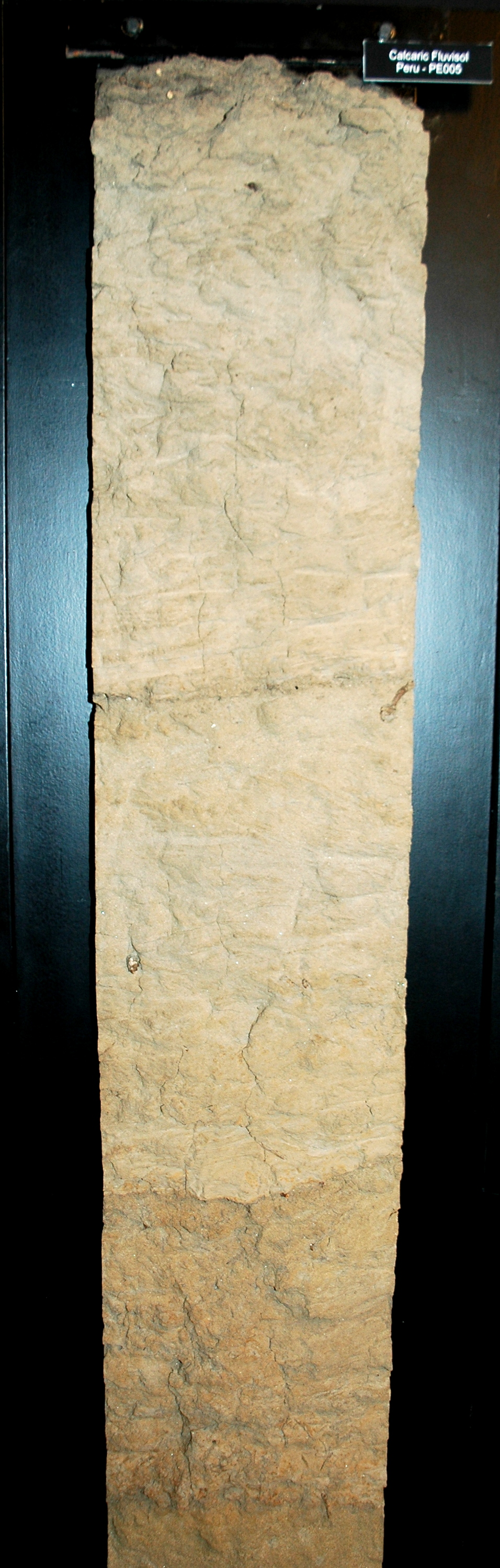 Soil profile of a Calcaric Fluvisol from Peru.